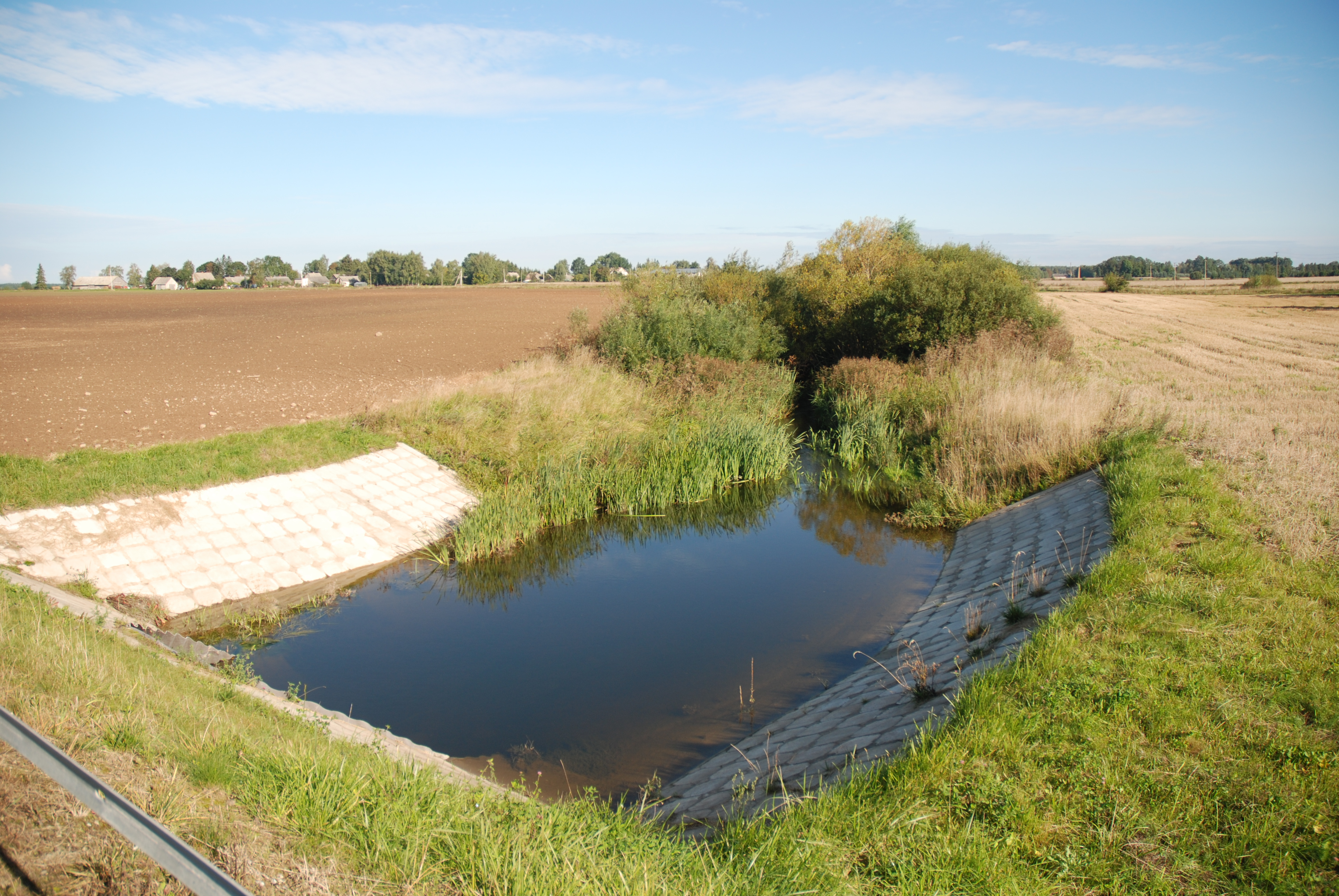 The river of Švitinys in Joniškis District